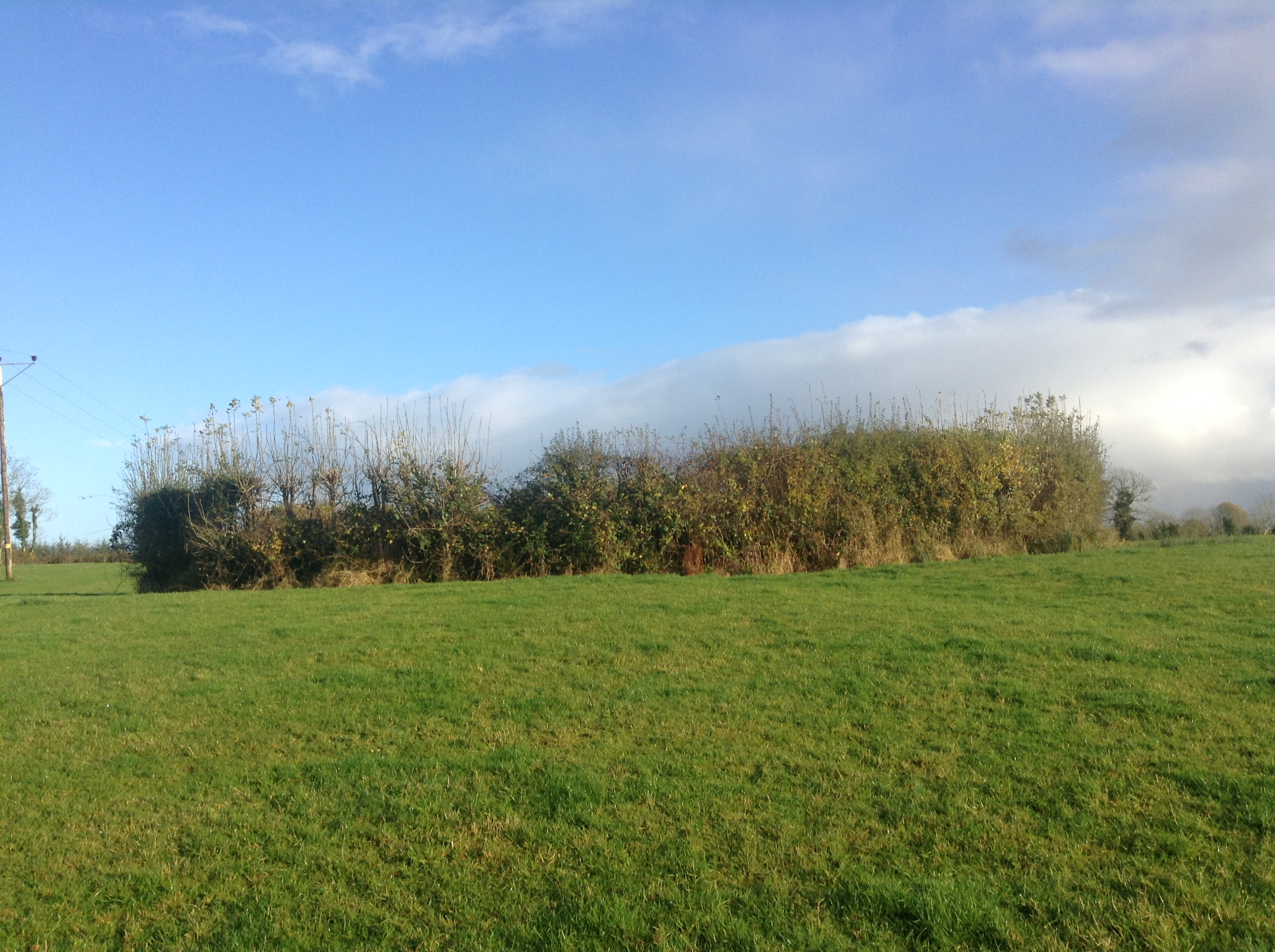 Ringfort, at Mullaun townland, Drumsna, Annaduff, County Leitrim, Ireland. Approx. Diameter=16m, Circumference = 2πr = 50m